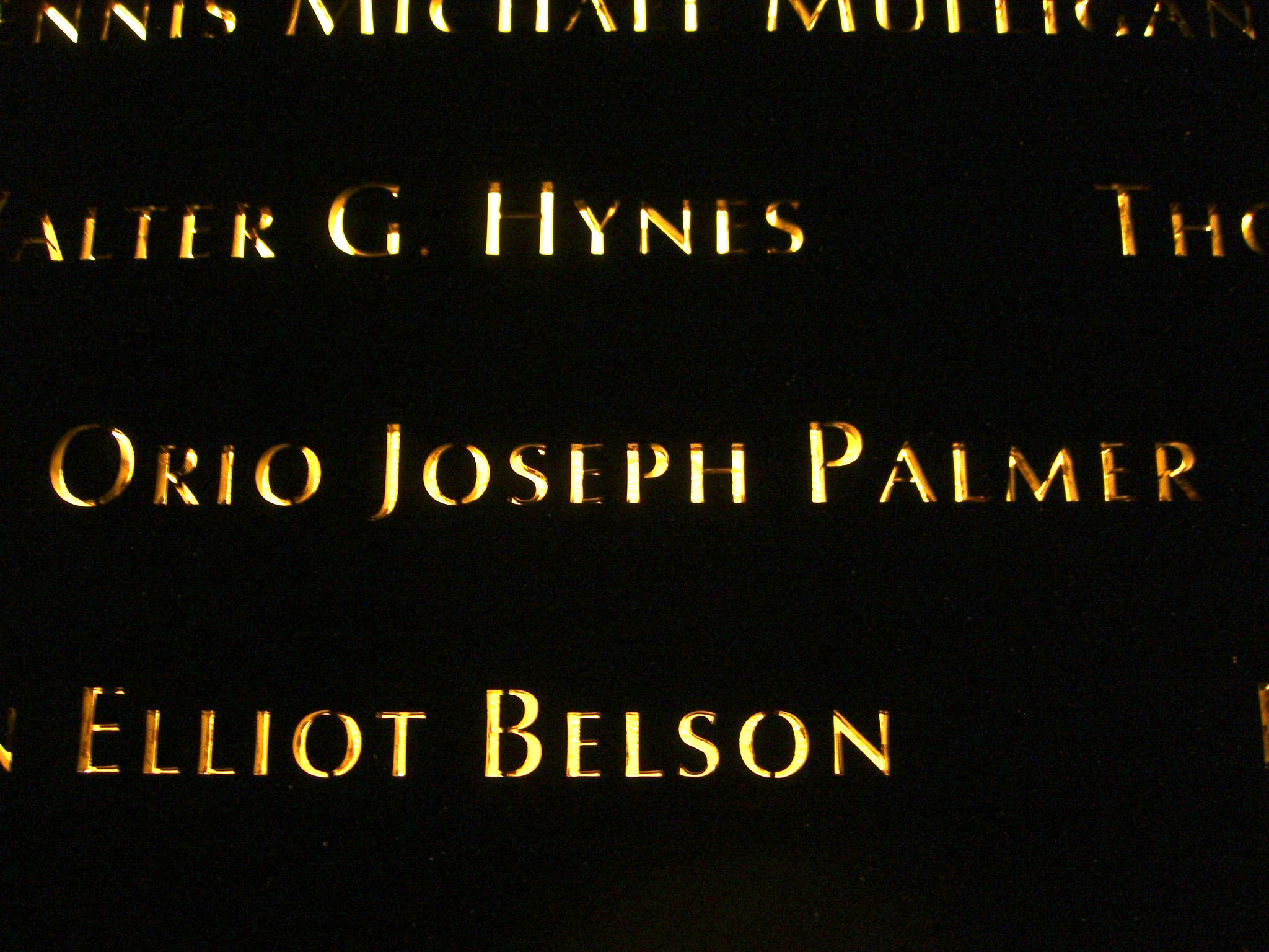 The name of Orio Palmer is seen among those of other first responders inscribed on bronze panel S-17 of the South Pool of the National September 11 Memorial in Manhattan, on December 6, 2001. This photo was created by Luigi Novi. If you have any questions, you can contact me by sending me an email or User talk:Nightscream